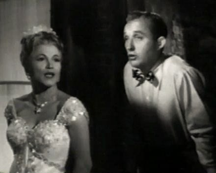 Dorothy Kirsten and Bing Crosby in the film Mr. Music (1950) - trailer (cropped screenshot).